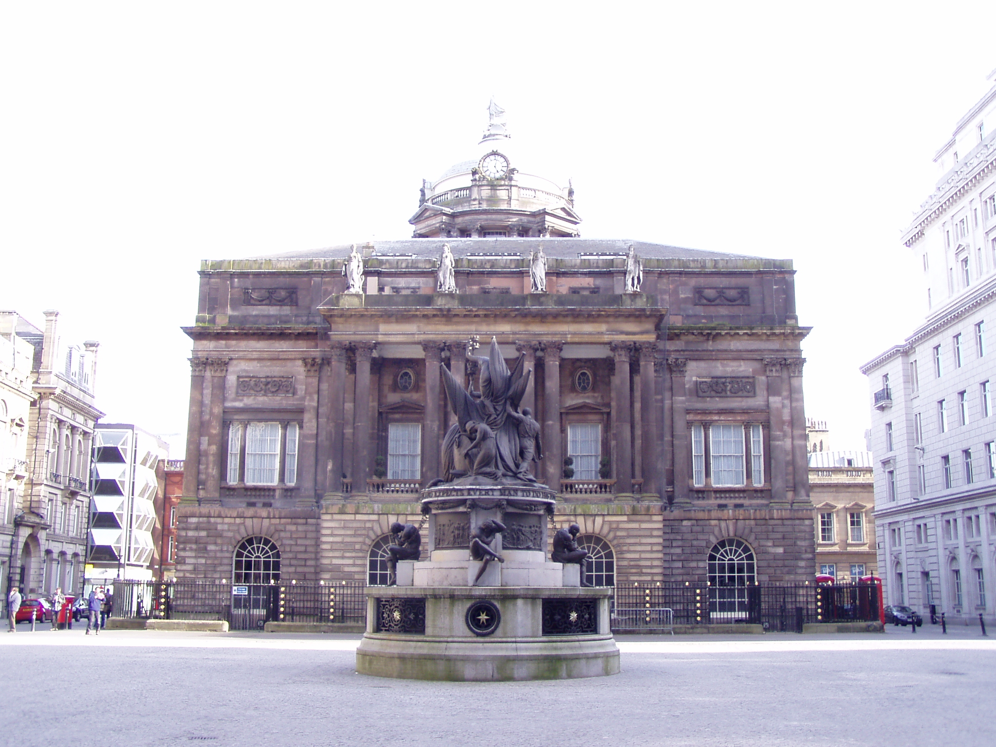 Nelson Monument and back of Liverpool Town Hall